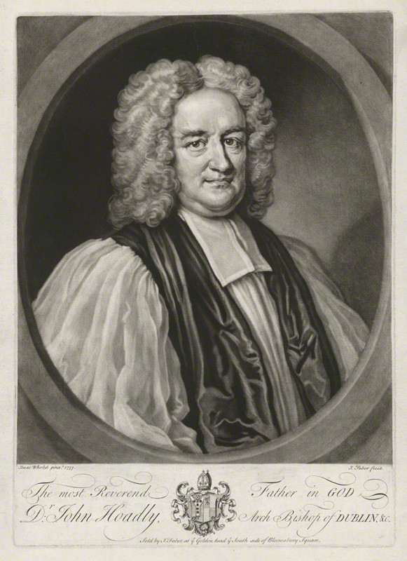 Portrait of John Hoadly (1678–1746), Protestant Archbishop of Armagh.